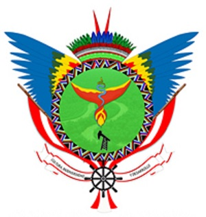 The shield was made through a public call and was institutionalized through the municipal council.